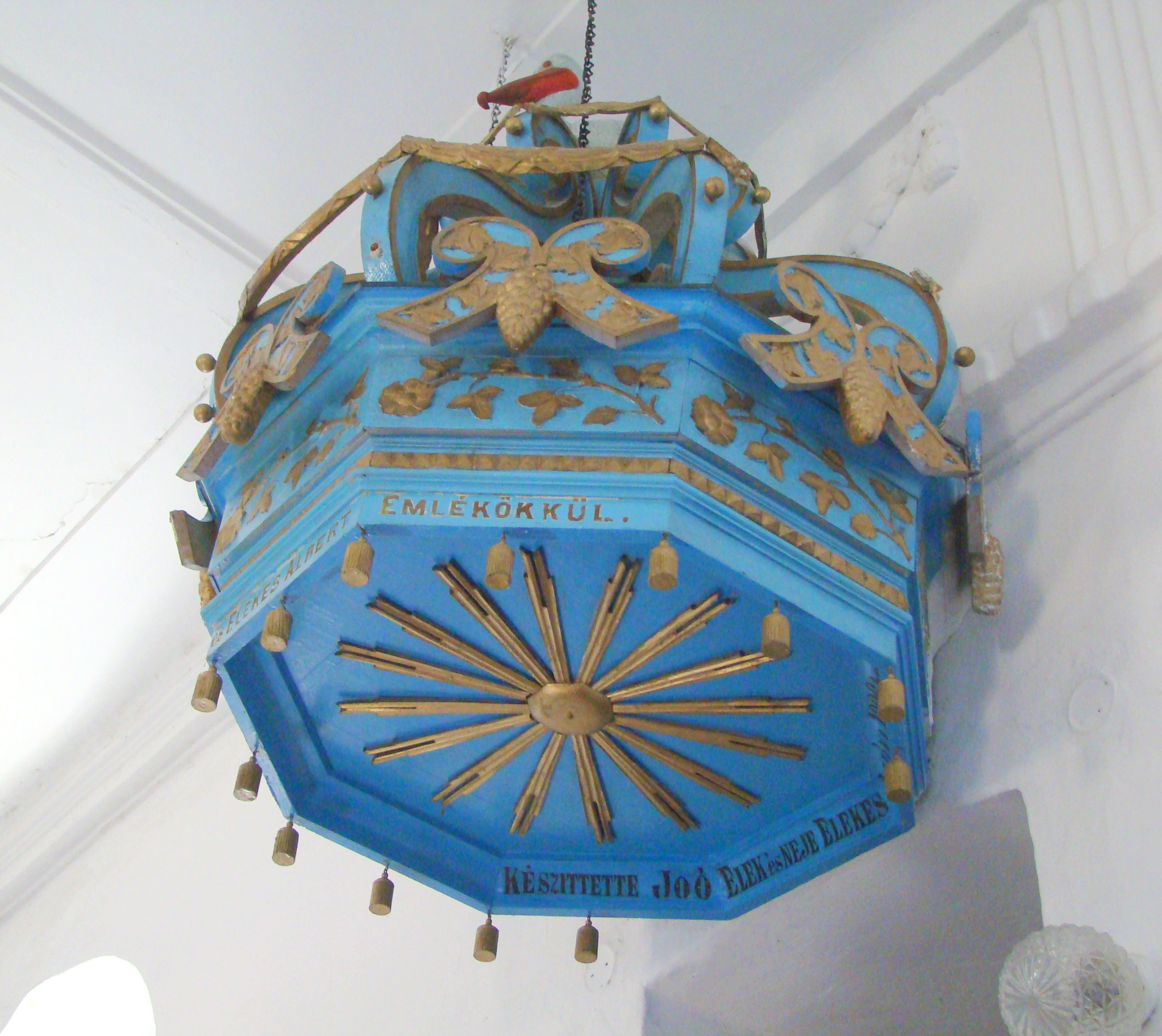 Unitarian church in Șimonești, Harghita county, Romania